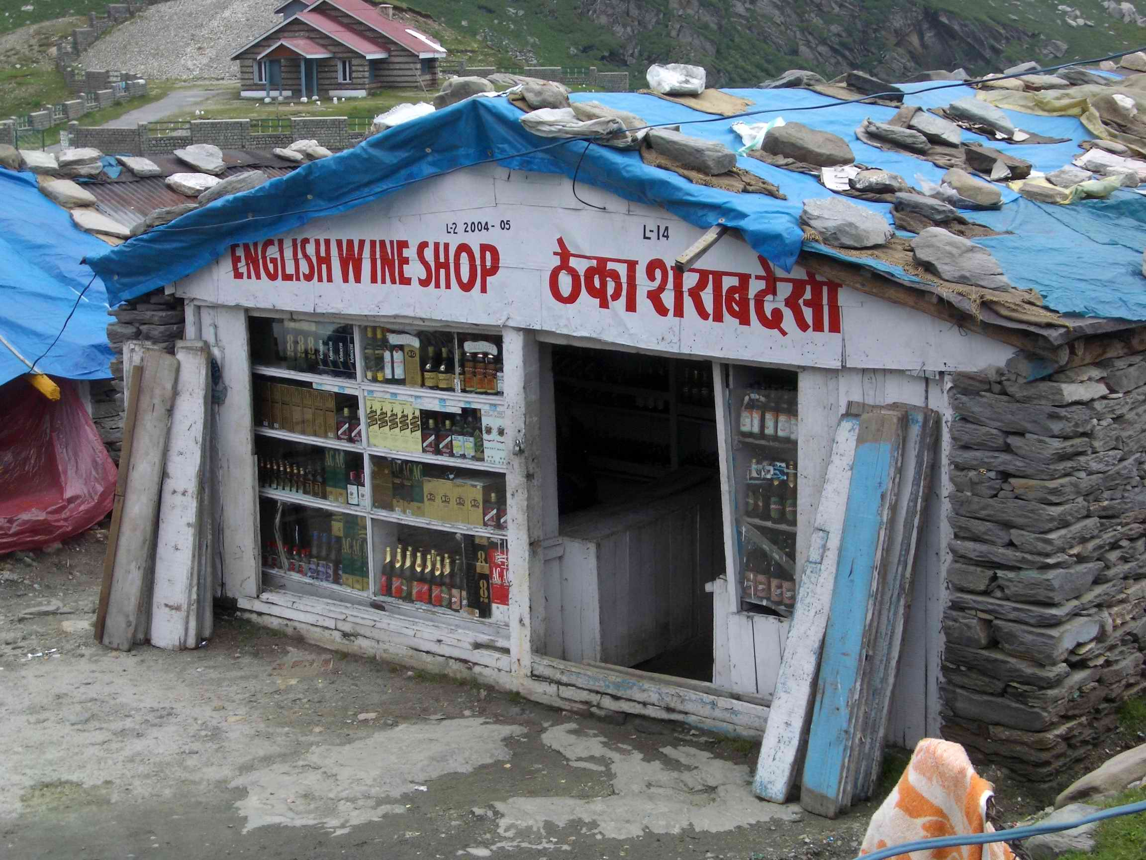 I took this photo of this so-called 'English wine Shop' while crossing the Rohtang Pass in 2004